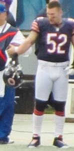 Chicago Bears linebacker Blake Costanzo on the sideline in 2012